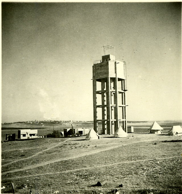 The first water tower, Architecture of Israel